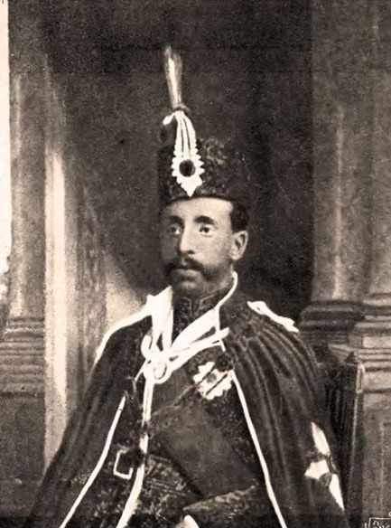 Hasan Ali Mirza Khan at young